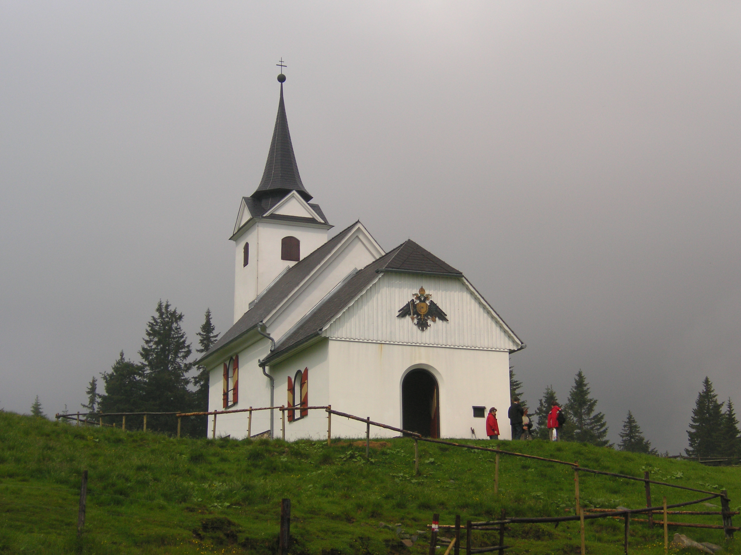 The church on the Gleinalpe